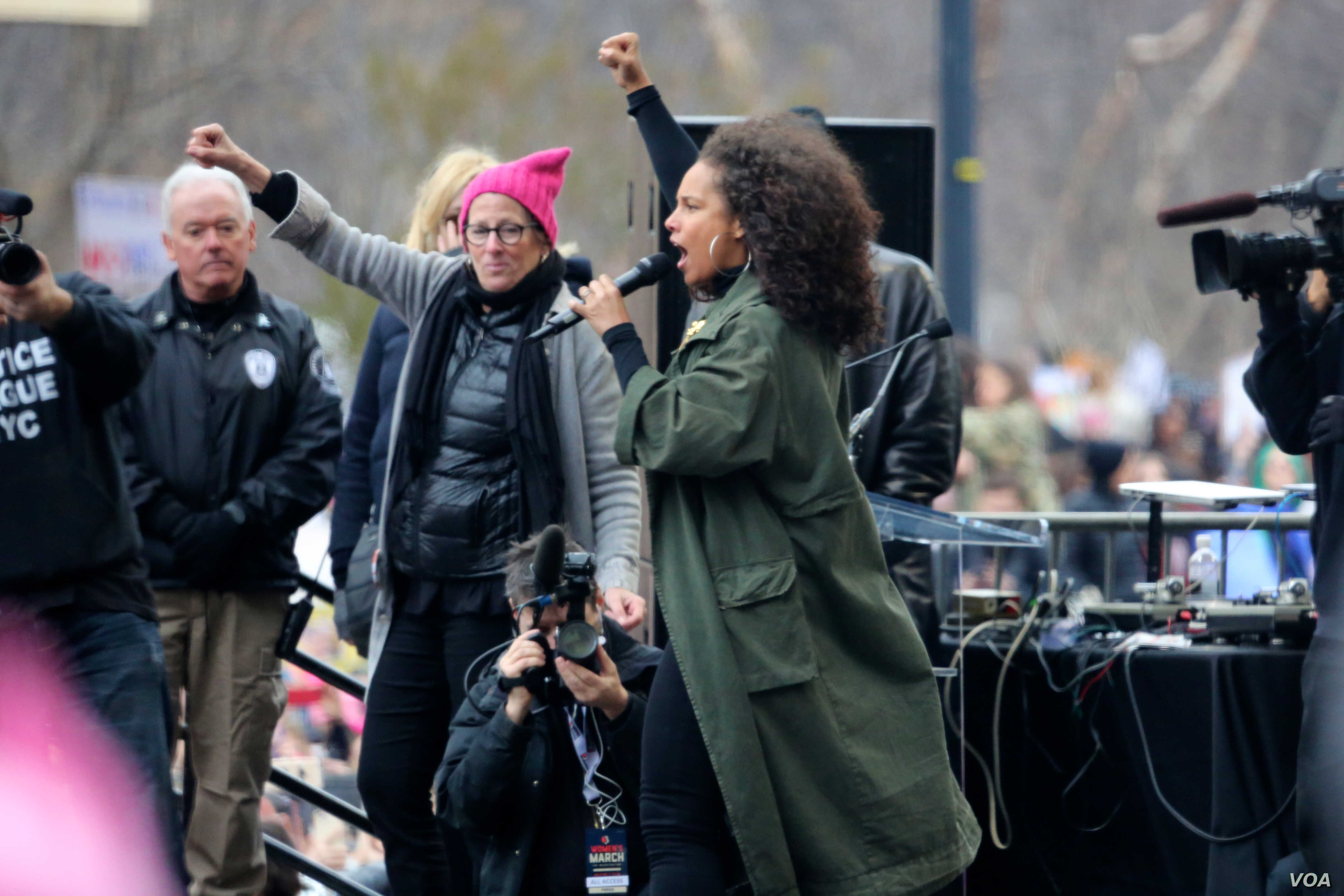 Singer Alicia Keys at the Women's March in Washington, D.C., January 21, 2017. (Photo: B. Allen / VOA)